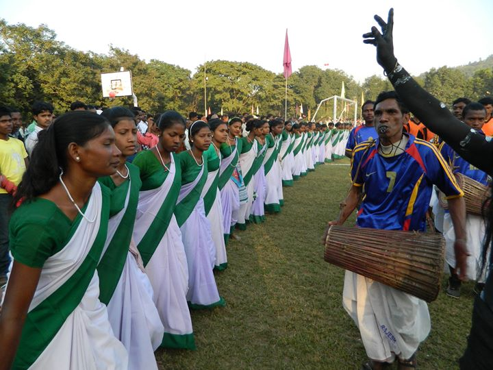 Santhali women dancing during a festival.